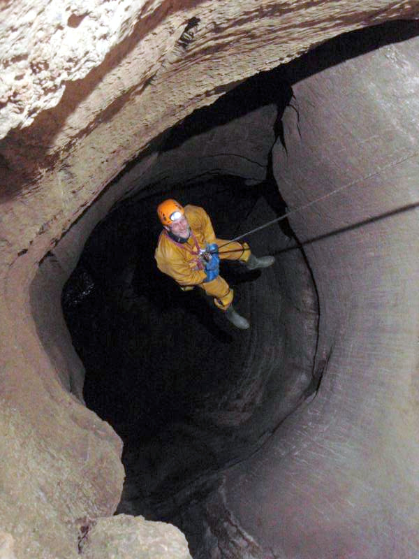 A caver descending an 80' shaft in Notts Pot, Lancashire, England.